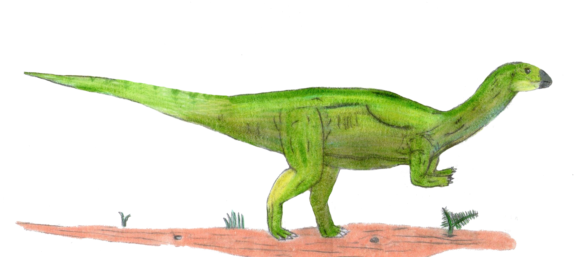 Restauration the Dryosaurus